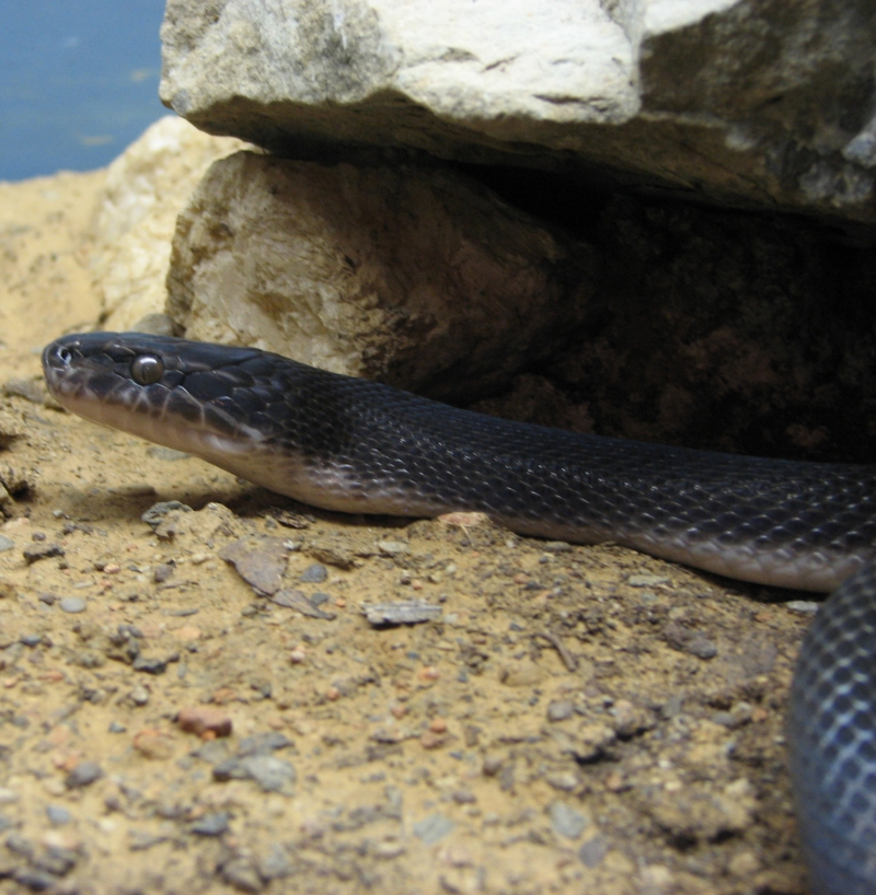 African House Snake (Lamprophis fuliginosus)